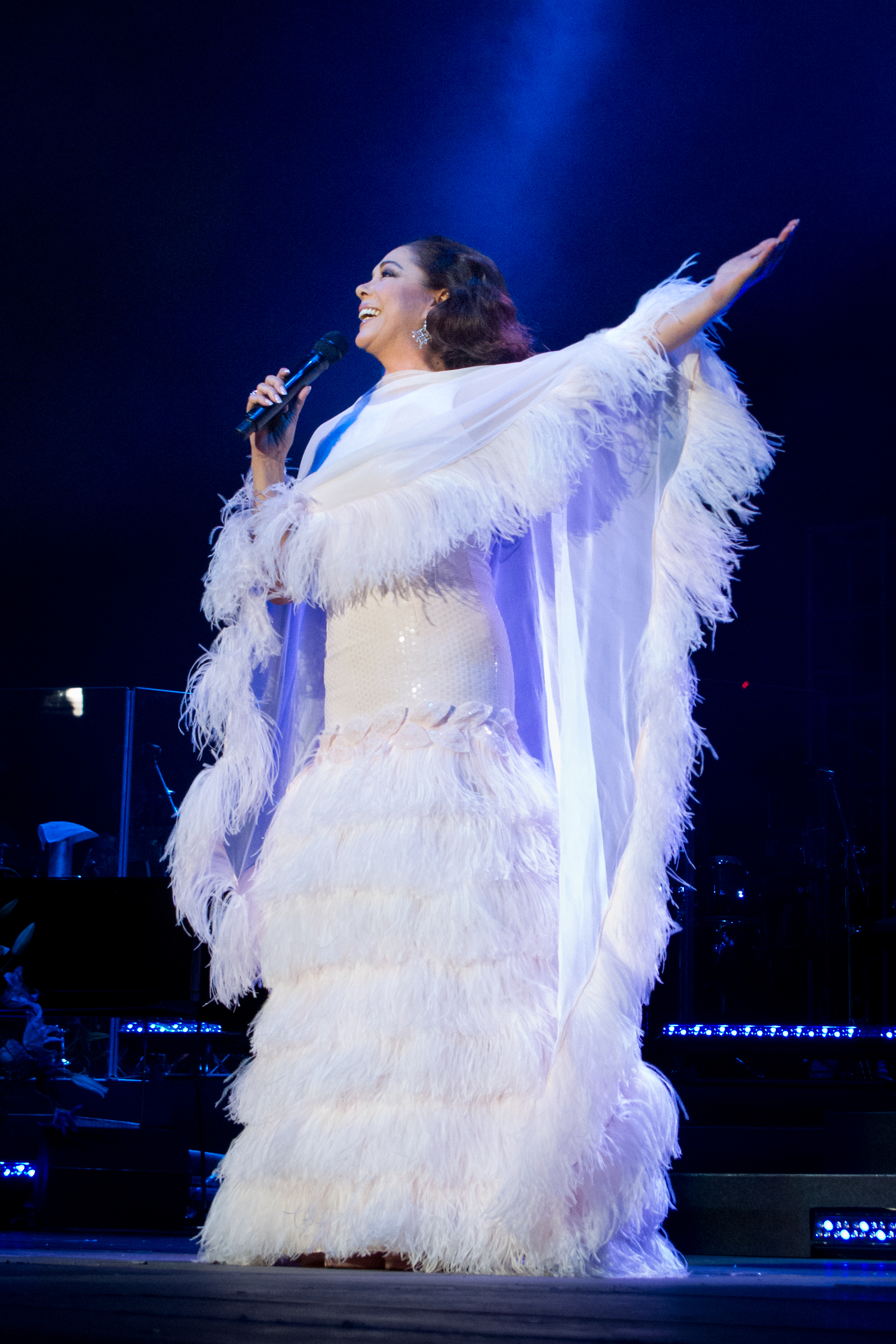 Isabel Pantoja live in Madrid in 2012.